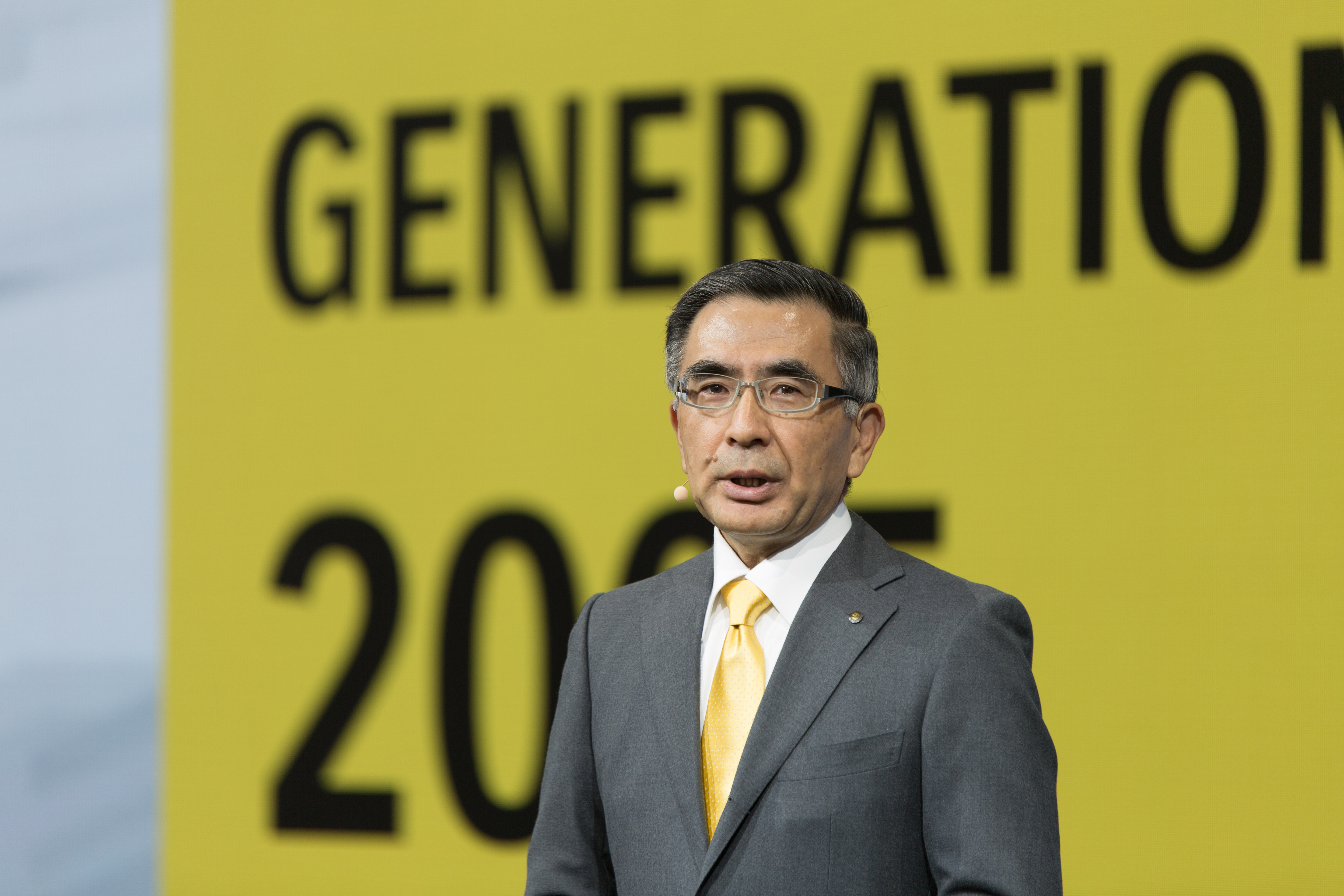 Toshihiro Suzuki at IAA 2017, Frankfurt